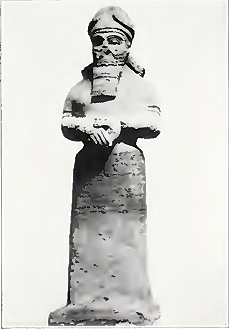 Statue of the god Nebo; reign of Adad-nirari III. Photo, Mansell & Co.Illustration from 1911 Encyclopædia Britannica, article Babylonia and Assyria.